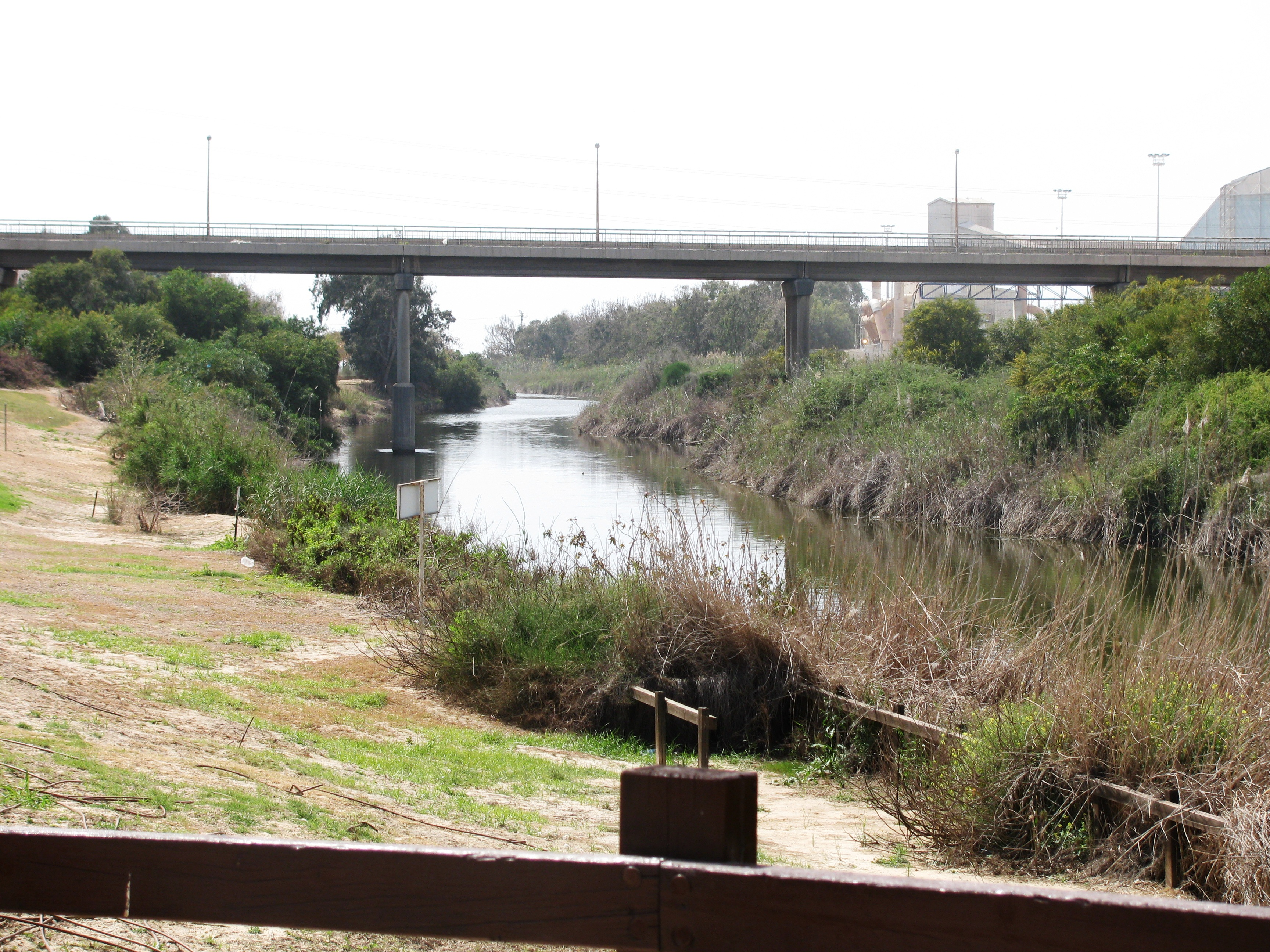 Lakhish river in Ashdod